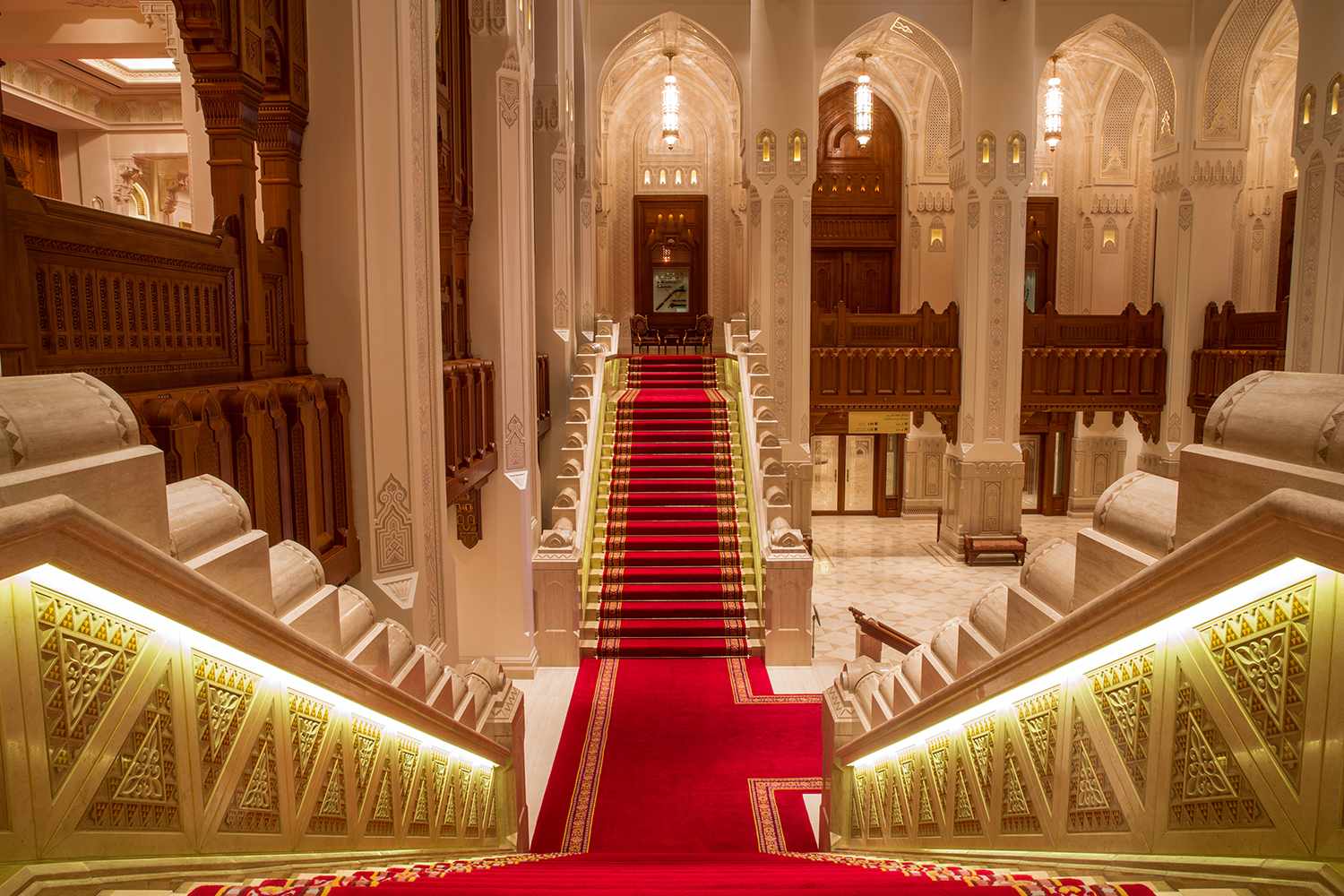 ROHM Main Lobby. Photo: Khalid AlBusaidi